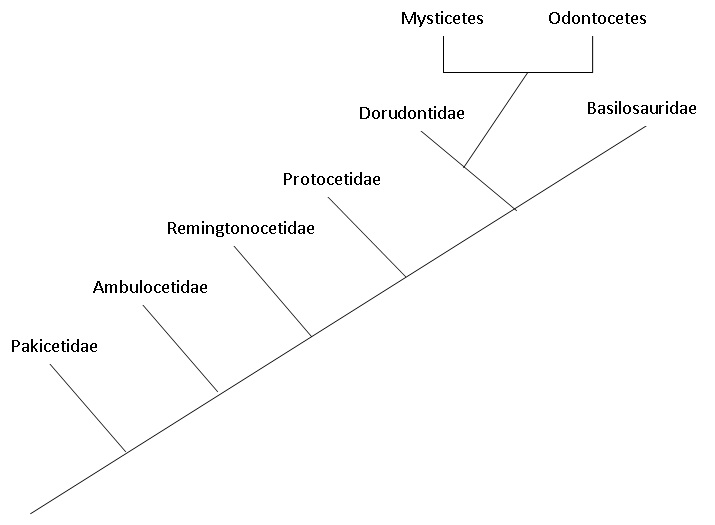 A diagram showing the evolutionary history of cetaceans.